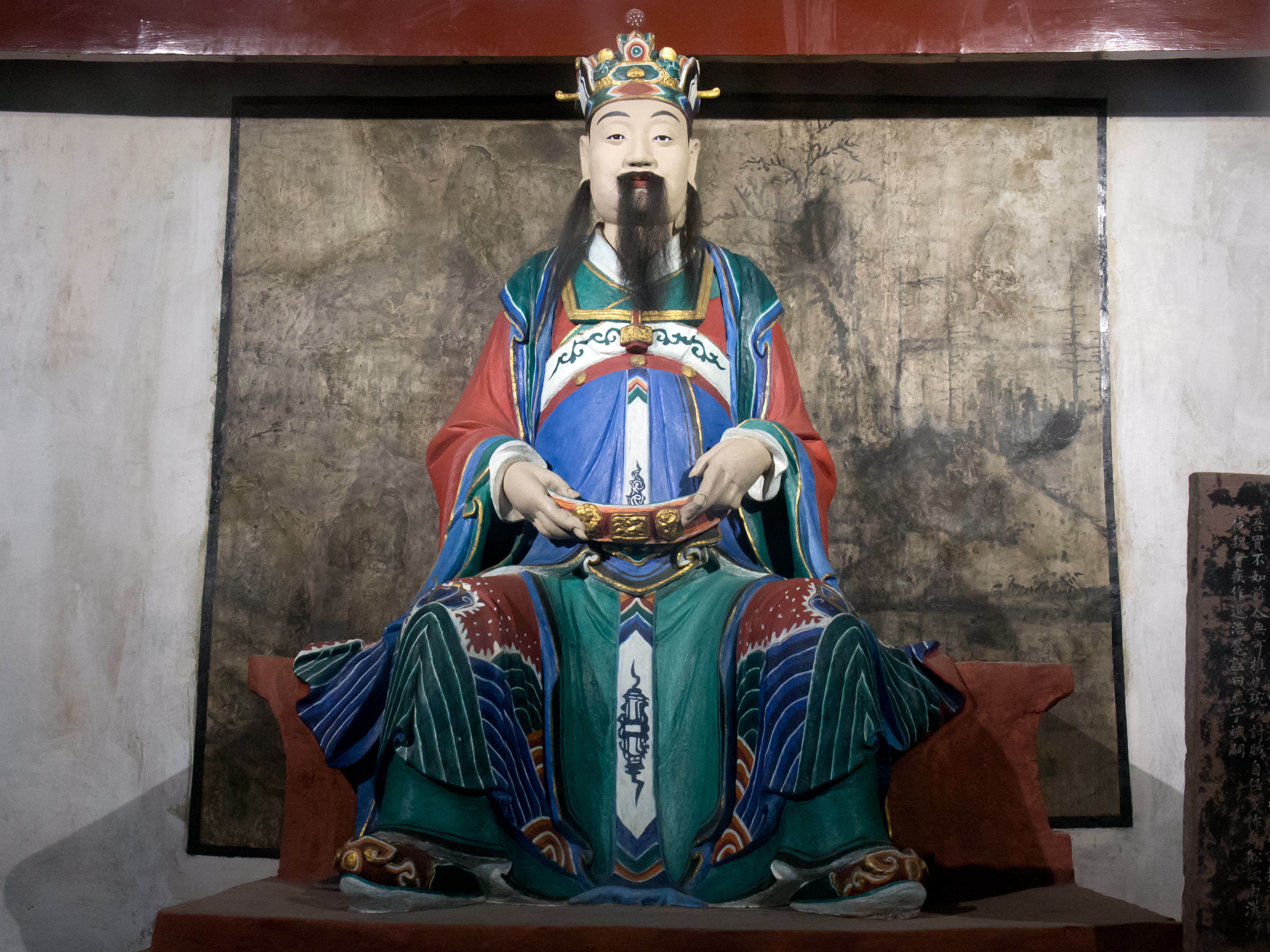 Jiang Wan (蔣琬)